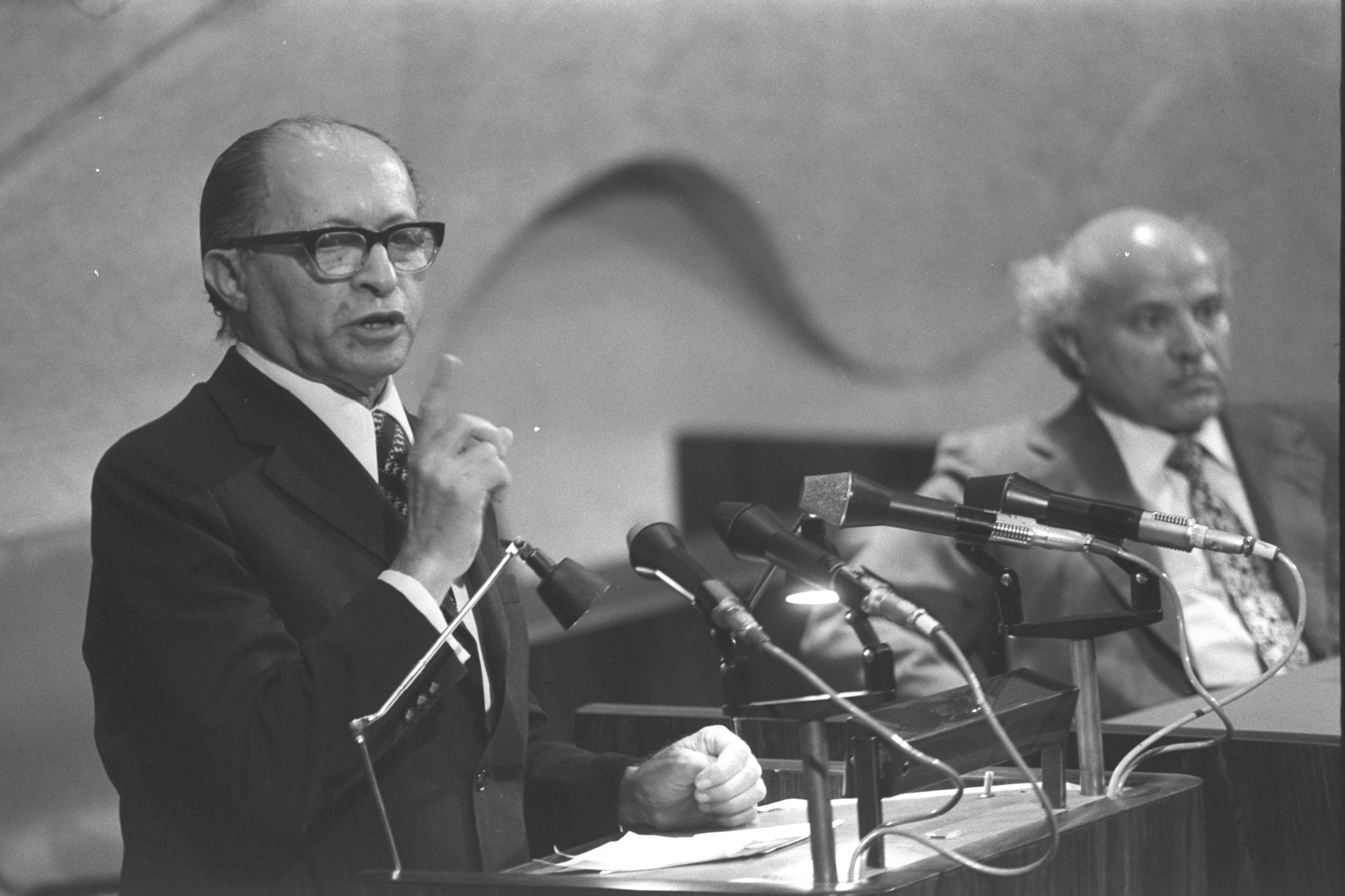 Likud leader Menahem Begin addresses the Knesset.